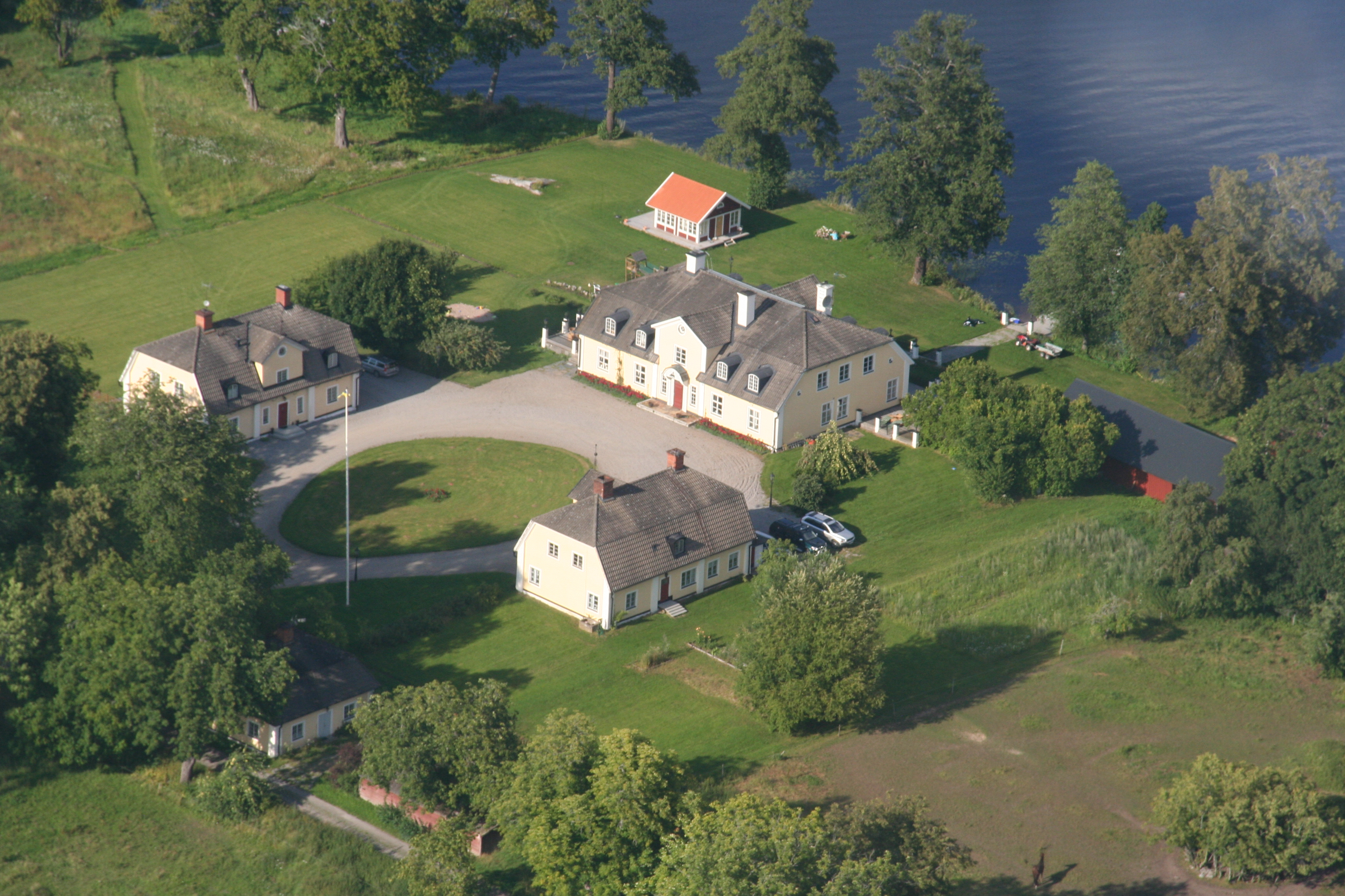 Aerial Photo of Tisenhults Estate, Östergötland, Sweden